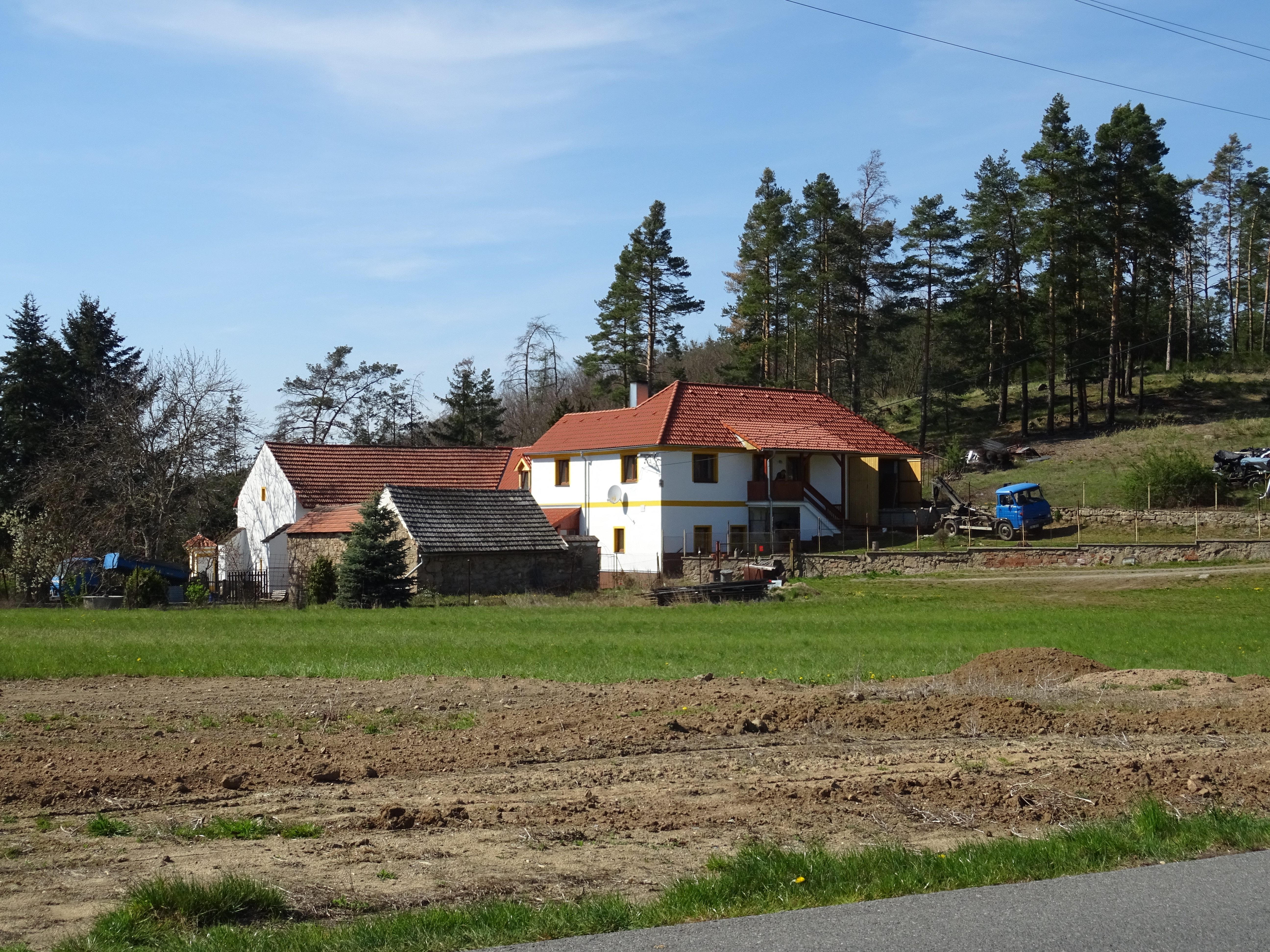 This photograph was created as a part of Wikiexpedition Mladá Vožice, a project supported by Wikimedia Foundation grant.